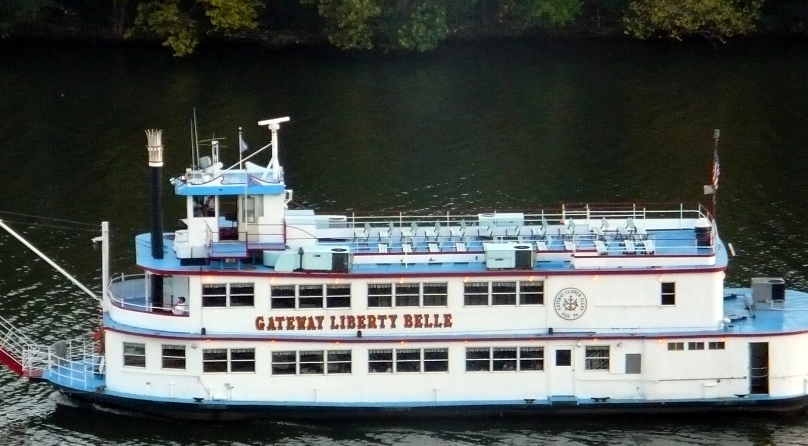 The Liberty Belle, part of the Gateway Clipper fleet, stationed in Pittsburgh, PA.